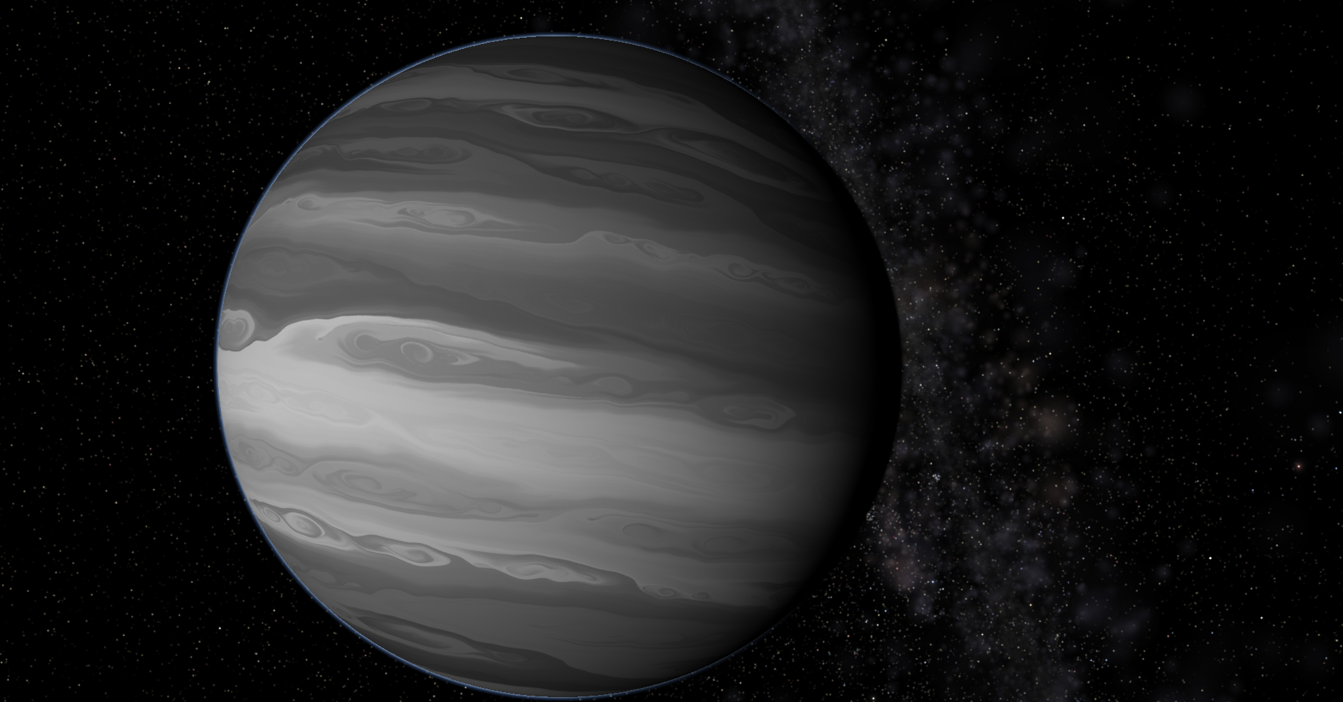 Exo-planet UpsilonAnd d